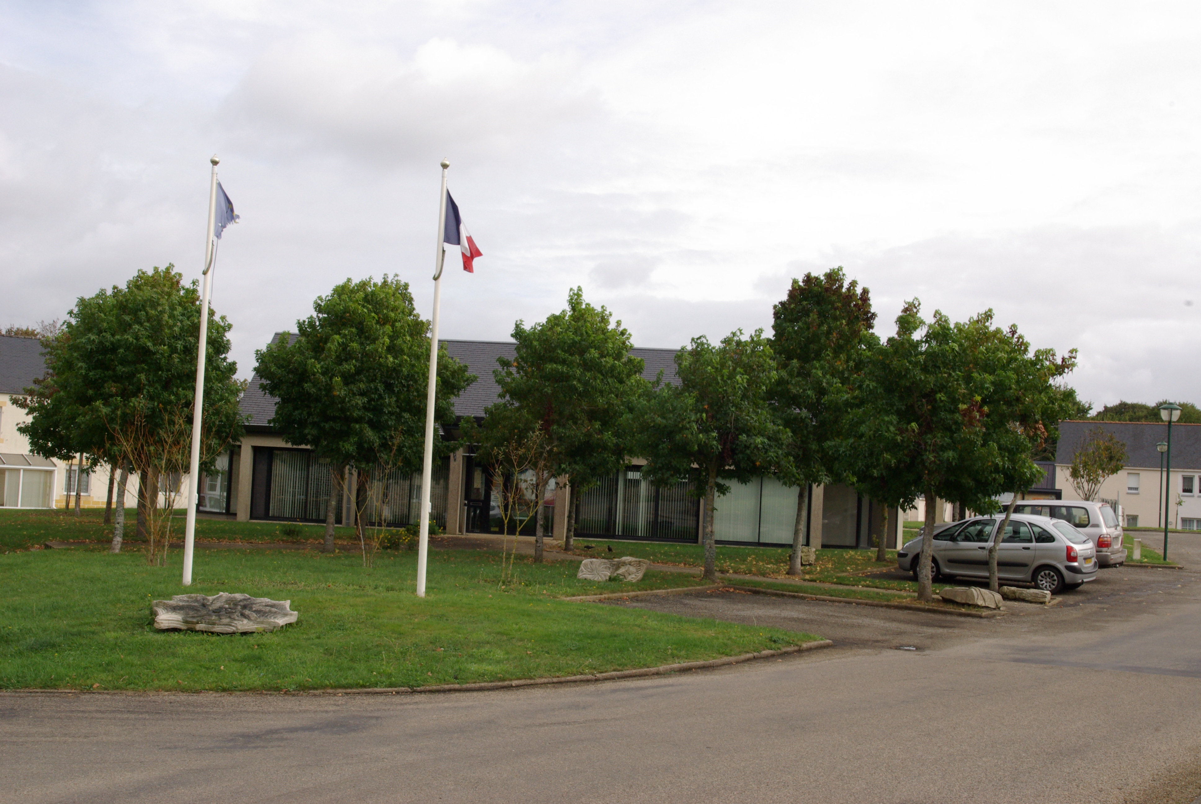 Mayor's office of Guiller-sur-Goyen